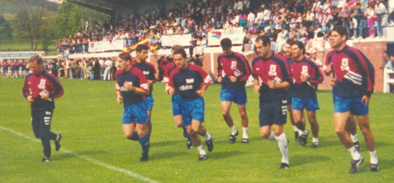 Football trainer Javier Clemente and the Spanish national team.